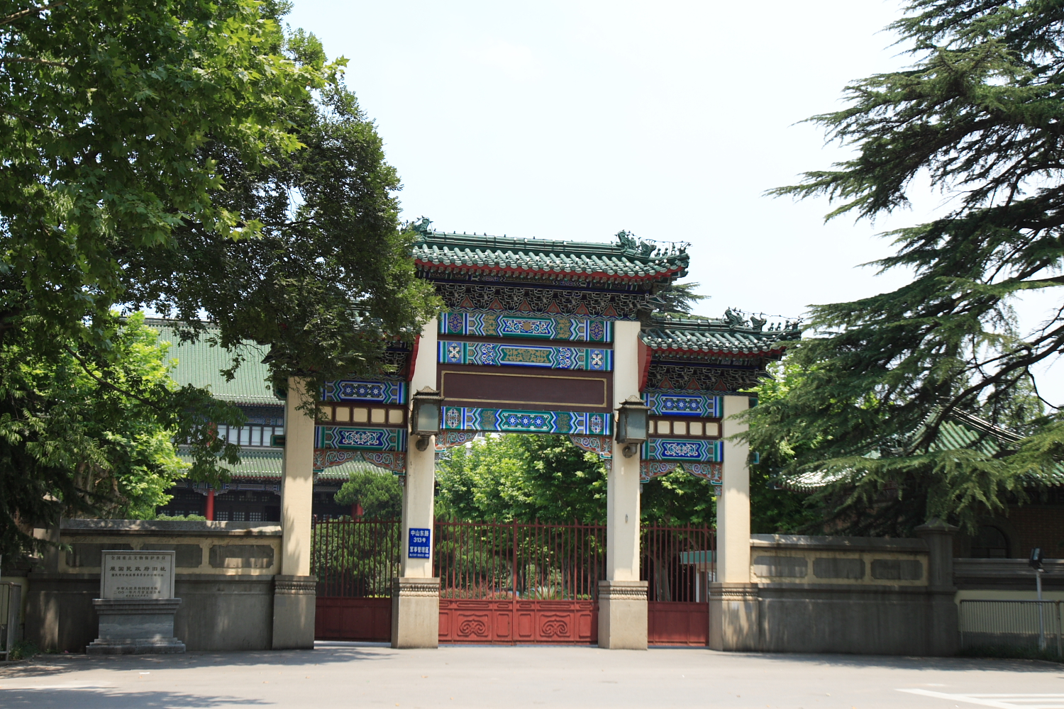 Historical sites of the Control Yuan of Republic of China, at Nanjing